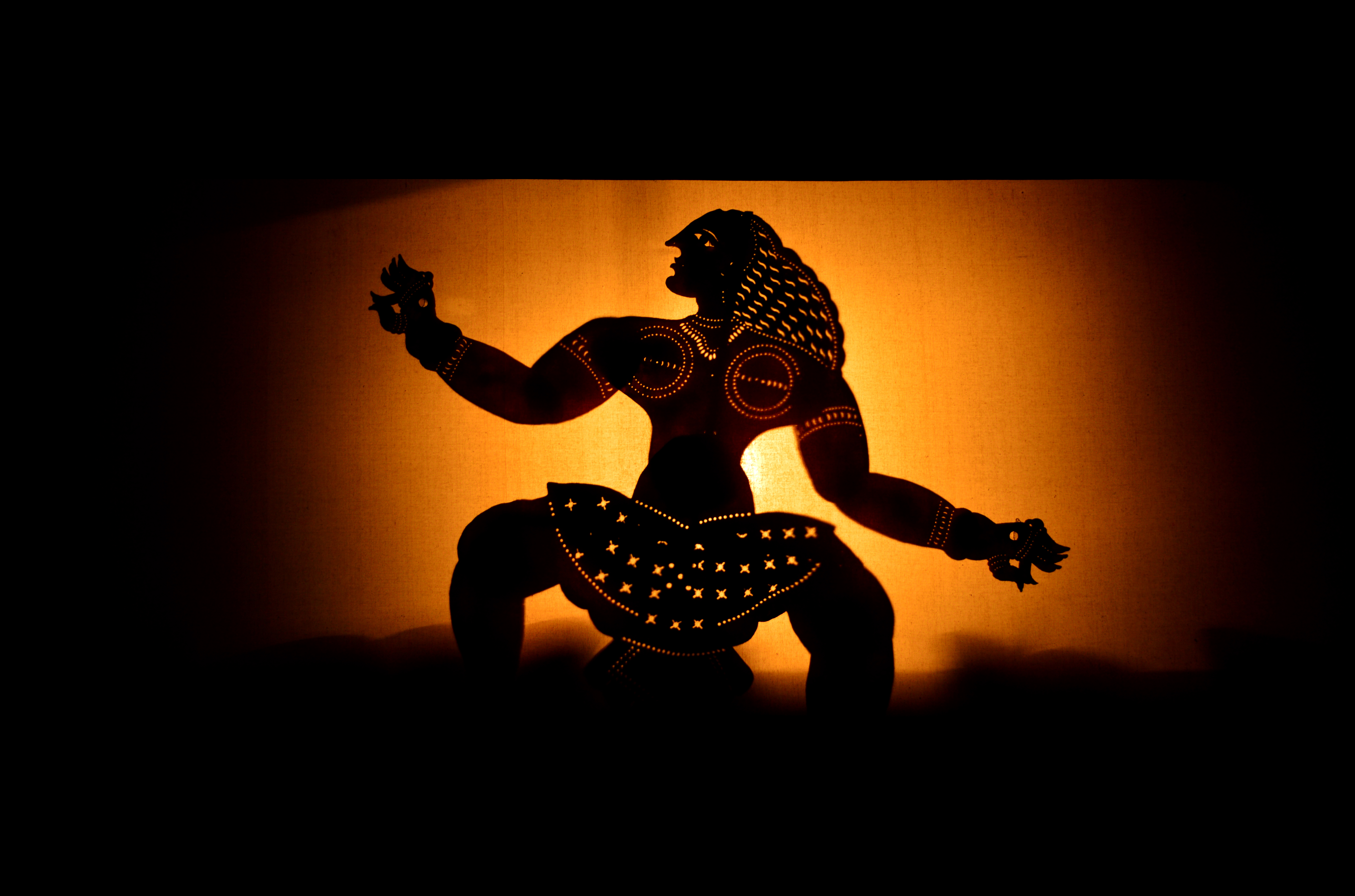 Tholpavakoothuis a form of shadow puppetry that is practiced in Kerala, India. It is performed using leather puppets as a ritual dedicated to Bhadrakali and is performed in Devi temples in specially built theatres called koothumadams.[1] This art form is especially popular in the Palakkad, Thrissur and Malappuram districts of Kerala.